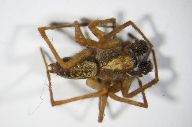 Histopona torpida